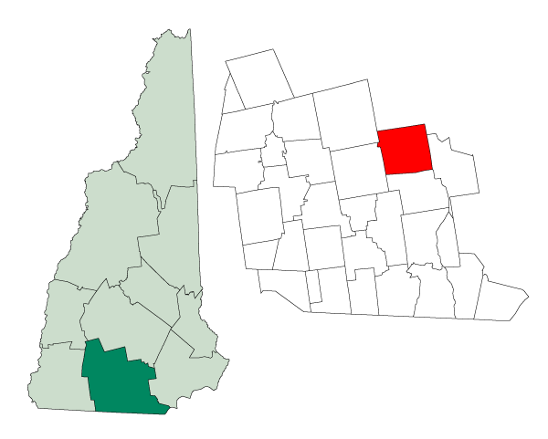 Map of a municipality in Hillsborough County, New Hampshire